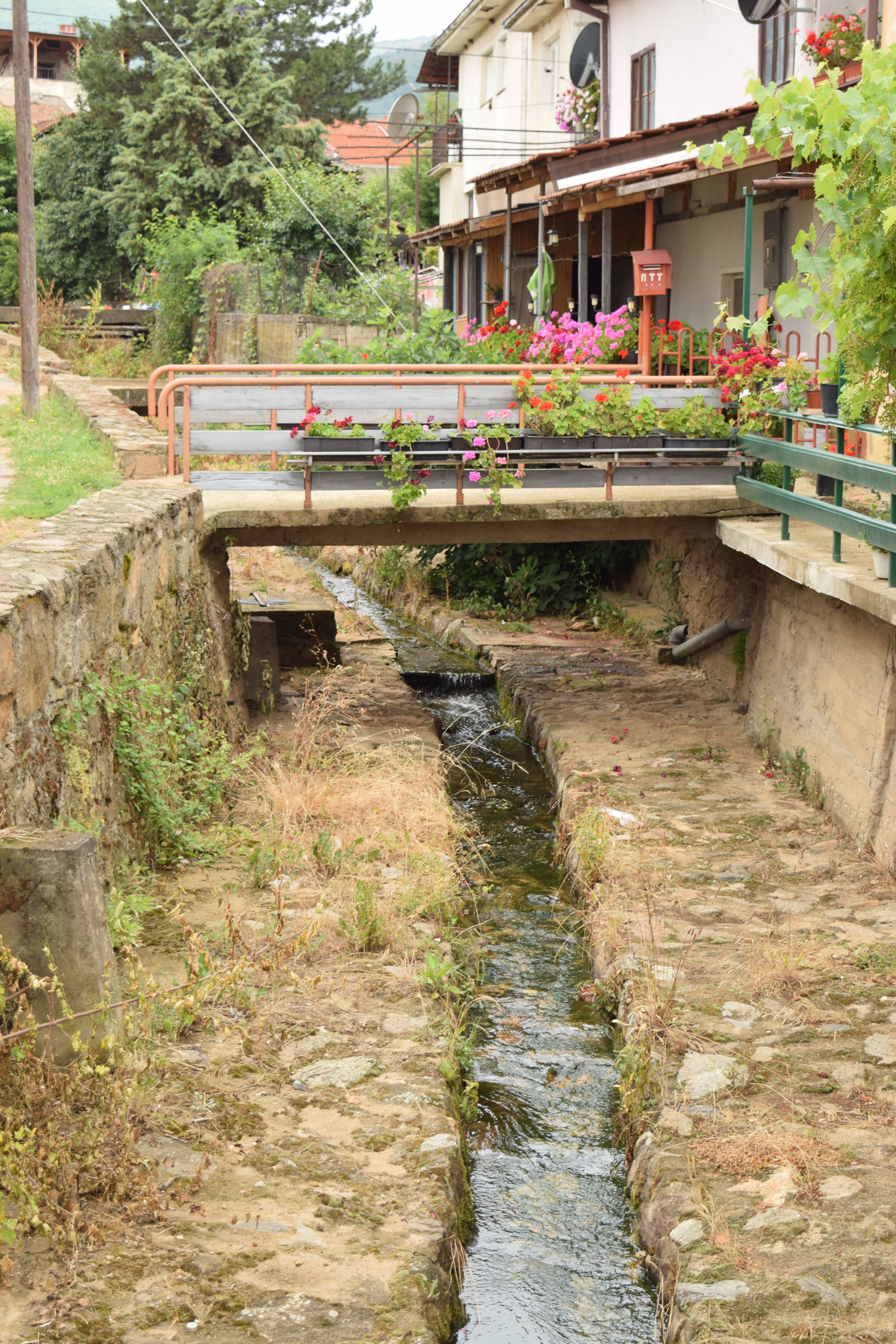 River Sušica in the village Bogomila